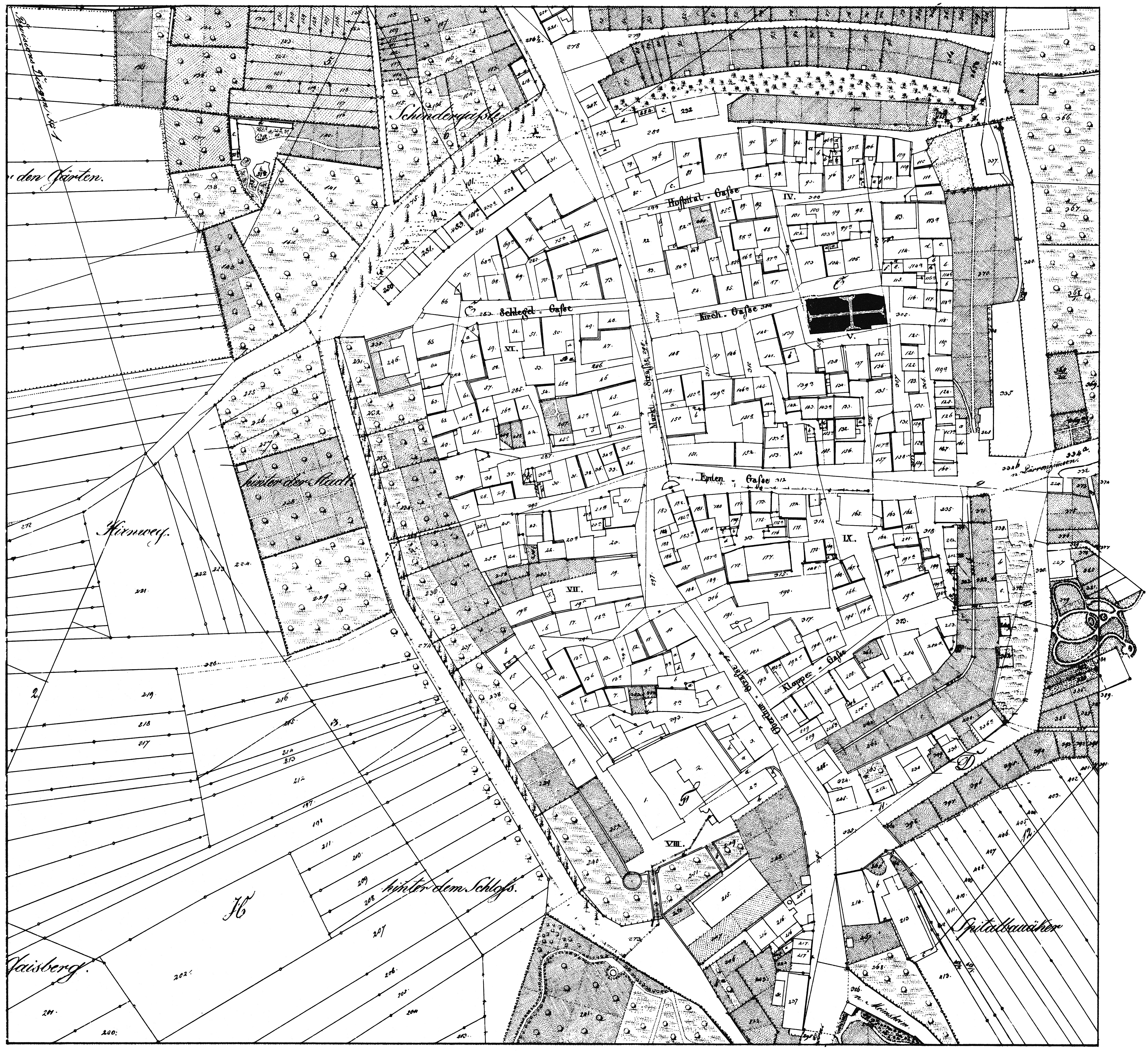 Historical town map of Brackenheim (Baden-Württemberg, Germany) in 1835, from an old plat (Flurkarte). This is a retouched image file: some points of the image have been reconstructed (see German description for details).